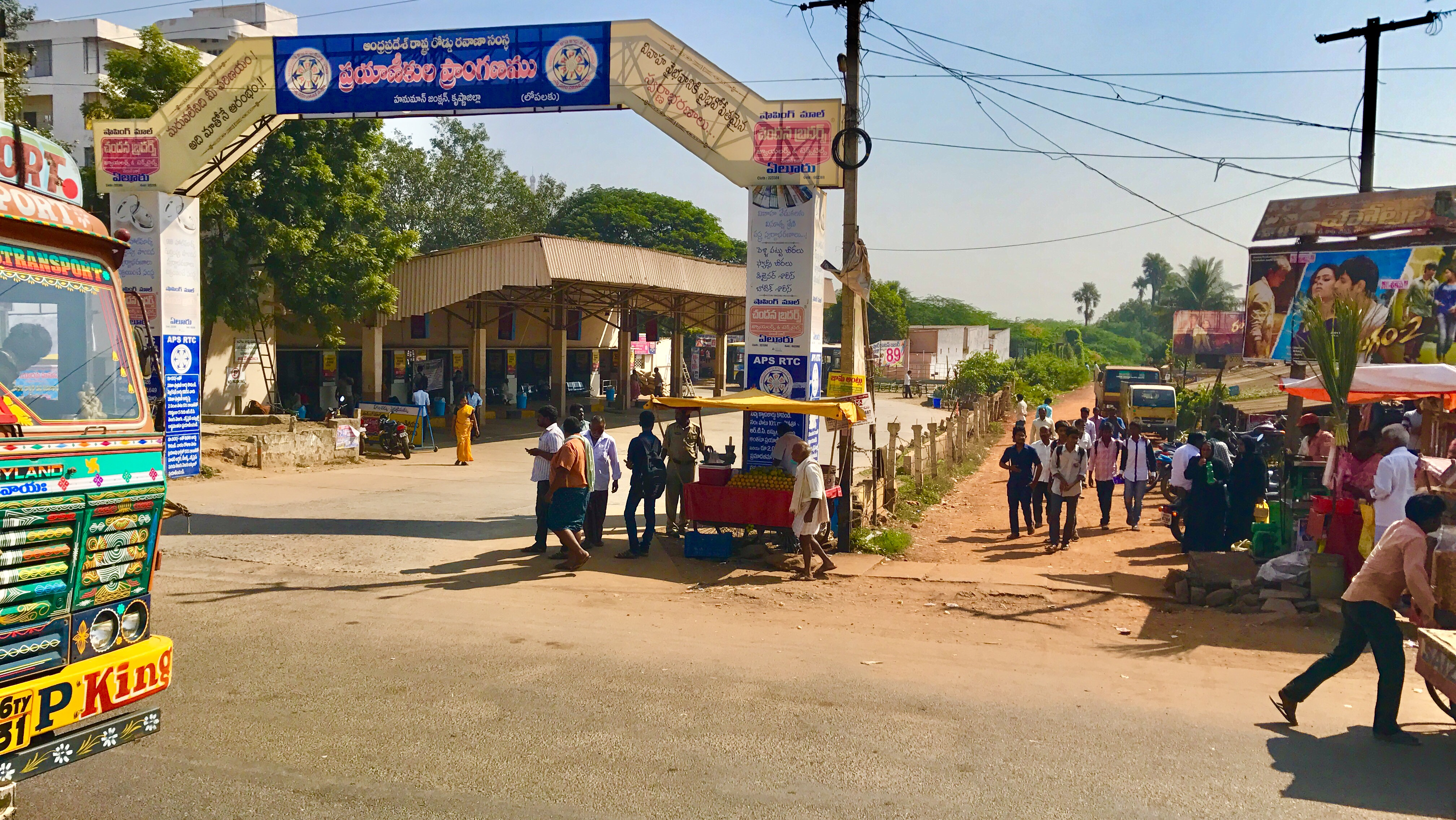 Bus station in Hanuma Junction